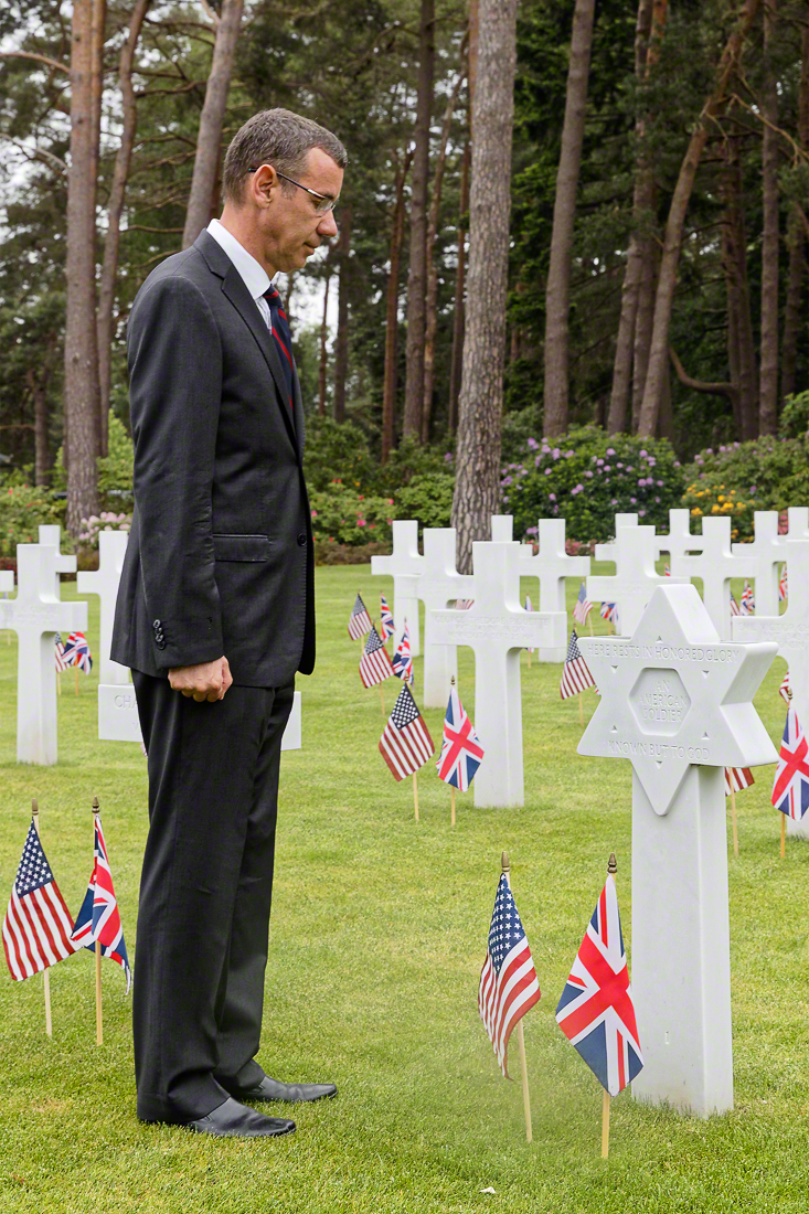 Mark Regev Israeli Ambassador to the UK Pays respect to an 'Unknown Soldier' at the Brookwood UK American Cemetery